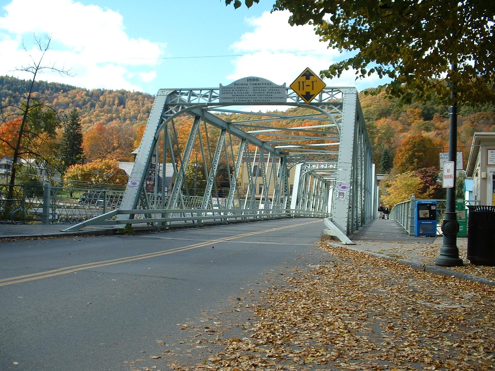 The 1890 truss bridge that crosses the Deerfield River between Shelburne and Buckland, in Shelburne Falls, Massachusetts. Bridge St (Rte. 2A/112), Shelburne Falls, MA